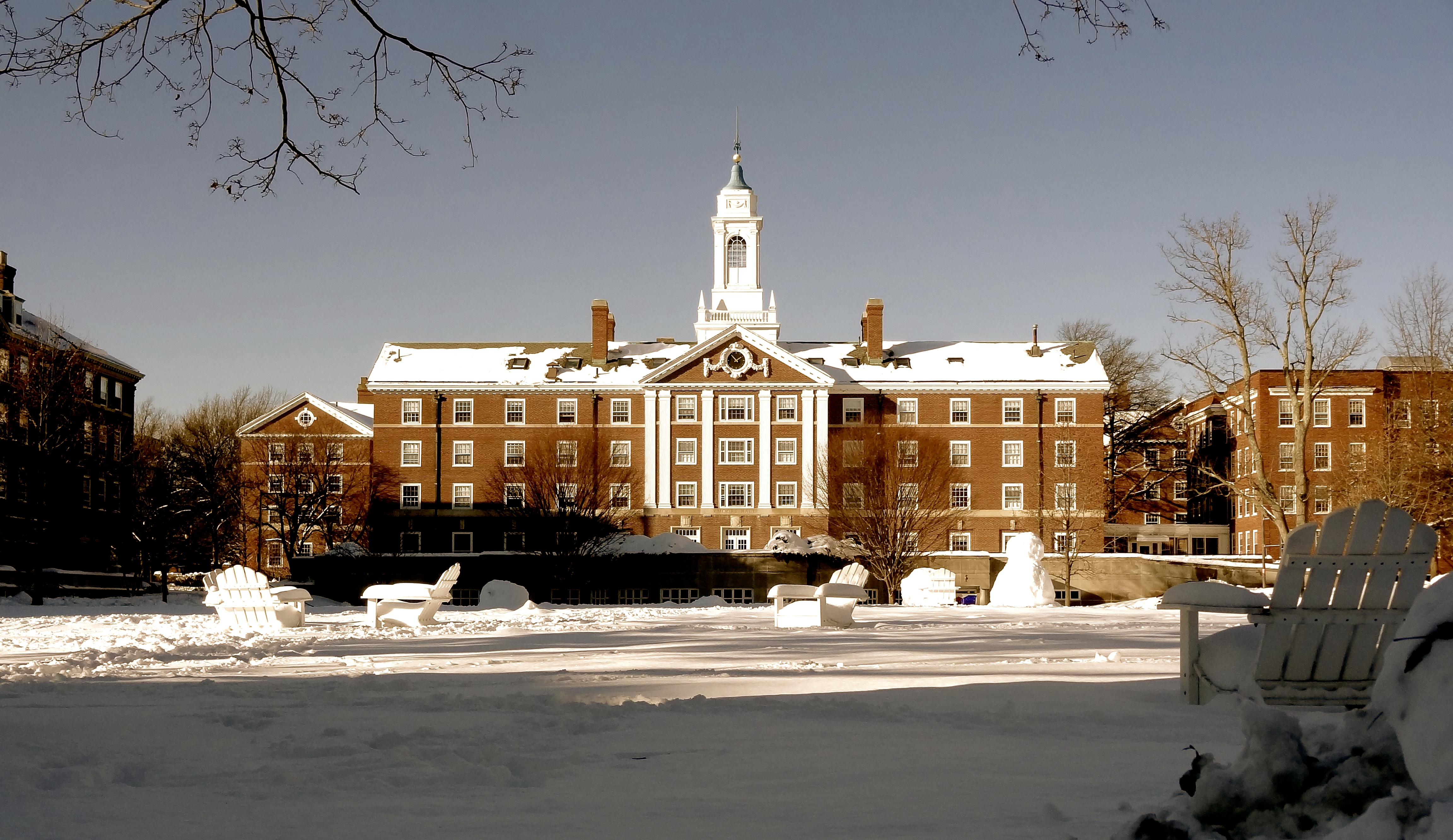 Snow and Pforzheimer House, Harvard Campus, Cambridge, Massachusetts